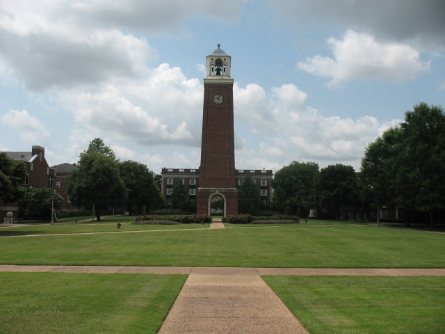 Edwards Bell Tower, Birmingham-Southern College